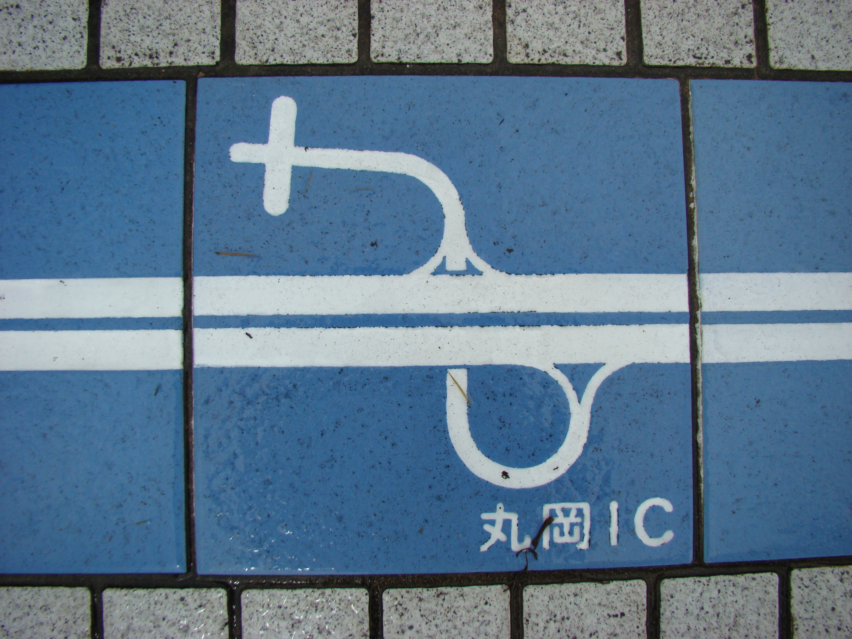 The tile which designed a shape of the Maruoka Interchange（Hokuriku Expressway）（There is this tile in Hokuriku Expressway Nadachi-Tanihama Service Area.）. Place - Chayagahara,Joetsu City,Niigata Prefecture,Japan Date - August 9, 2009 Format - JPEG, 3264x2448pixel, 24bit colors. Photographer - NALA Wiki (talk)